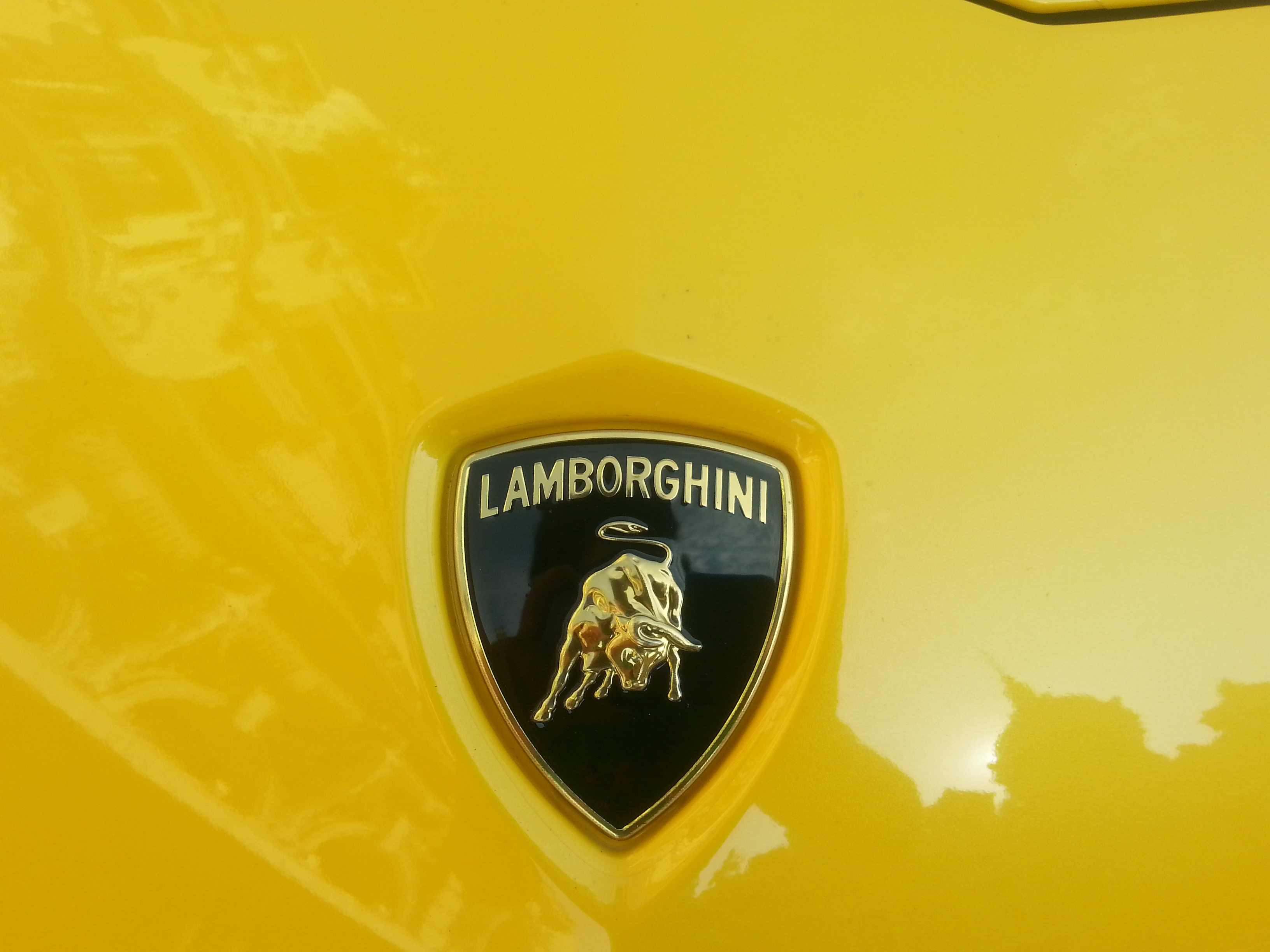 Yellow Lamborghini parked in between the Casino de Montecarlo and the Hotel de Paris, Monaco. August 2016.